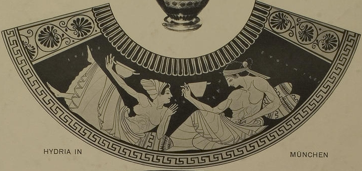 Symposium of hetairai, vase by Phintias in Antikensammlungen, Munich, no. 2421, drawn by Furtwängler and Reinhold